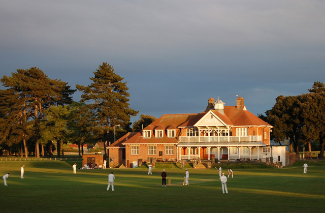 King's Park Cricket Pavilion and Cafe Taken on a Sunday evening in late spring when the sun was just setting, giving a lovely rosy glow to the cricket match.